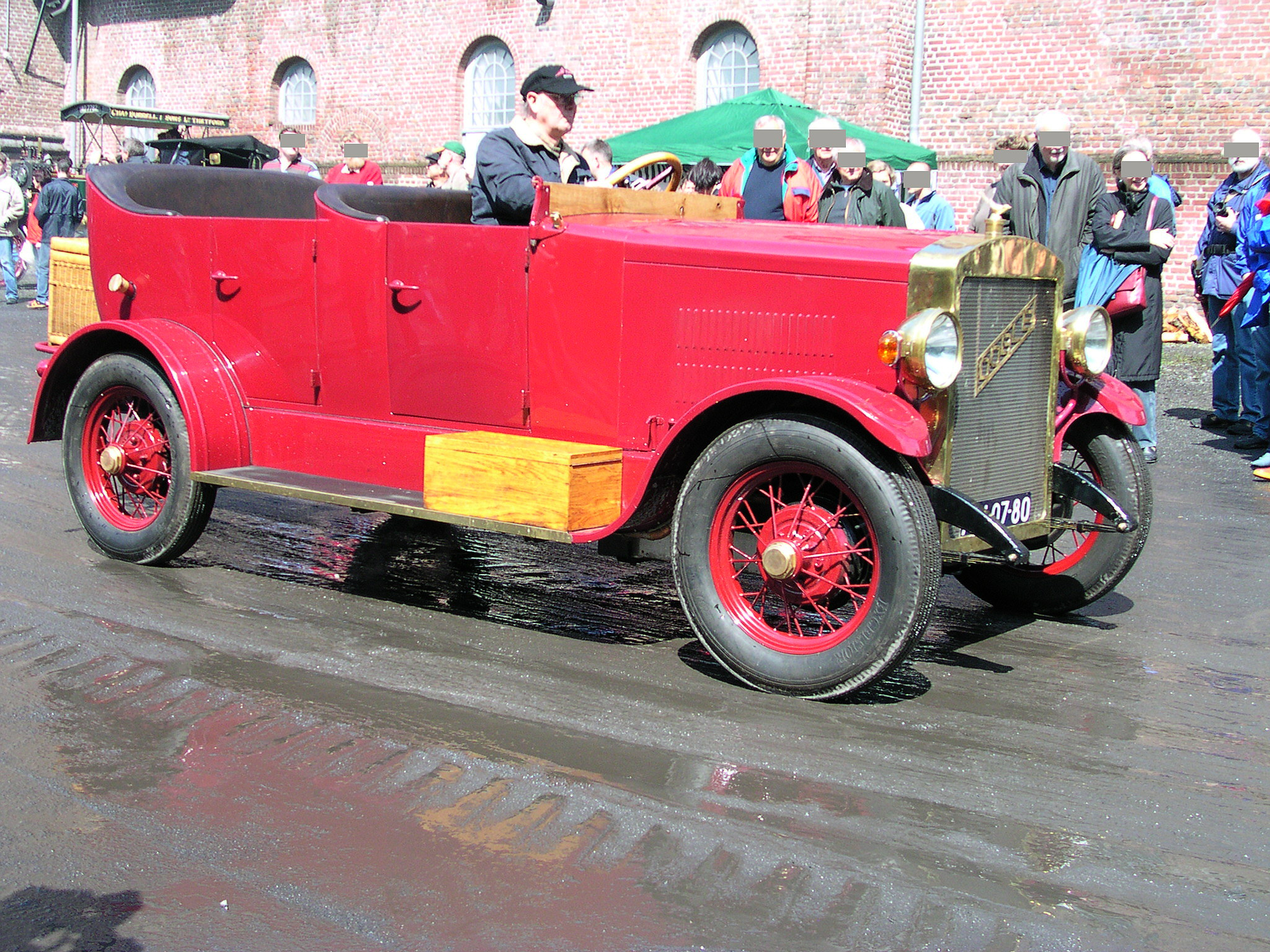 5th steam festival in Bochum, Germany 2007. Doble steam car